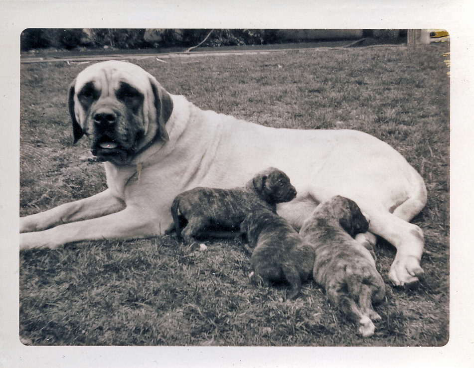 Tavia (aka Octavia) the Swinford Bandog, with her pups Jason and Teak born in 1966.